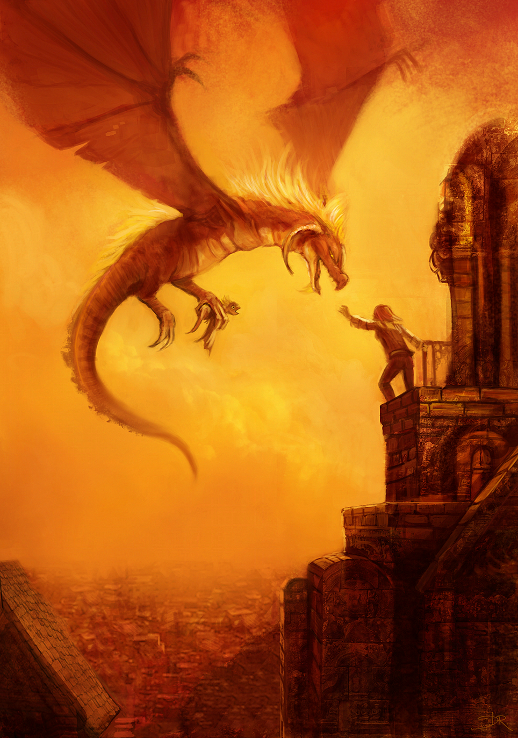 Concept-art done for Sintel, 3rd open-movie of the Blender Foundation. Artwork : David Revoy. Artwork made with Gimp-painter 2.6 and Mypaint 0.7.